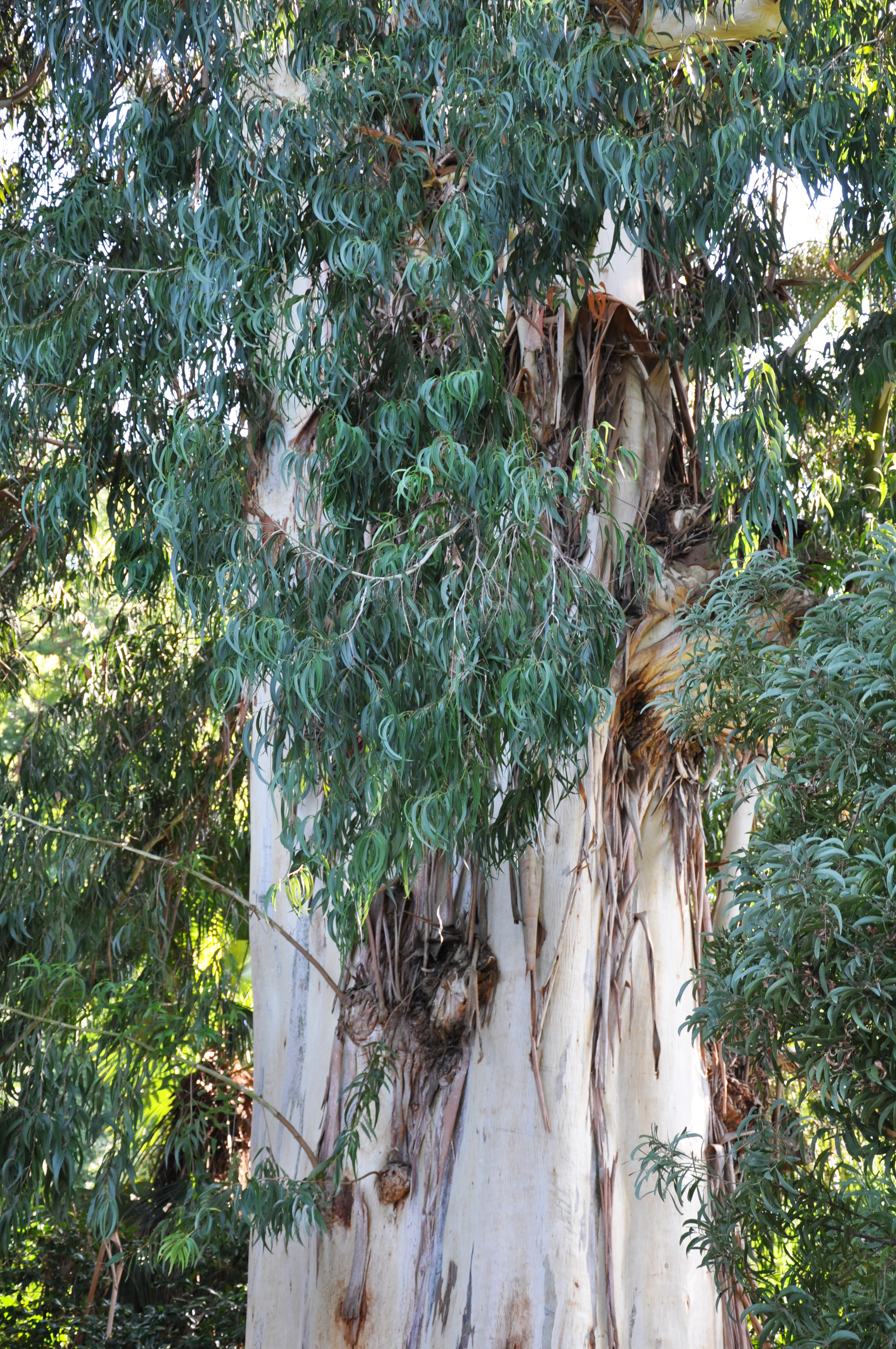 Taken in Batumi Botanical Garden